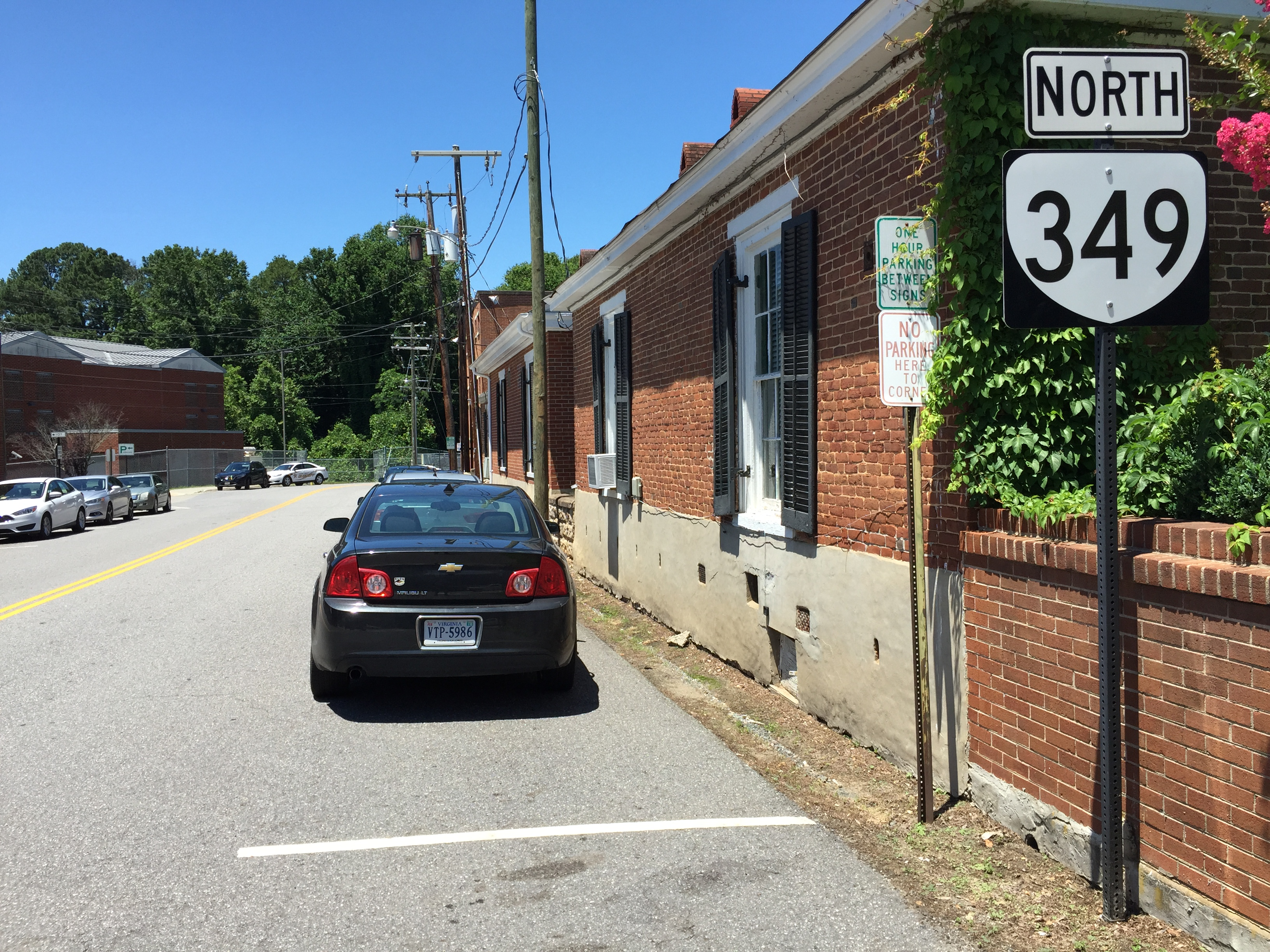 View north along Virginia State Route 349 (Edmunds Boulevard) at U.S. Route 501 (Main Street) in Halifax, Halifax County, Virginia